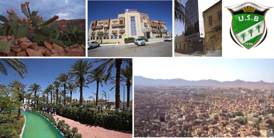 Biskra City